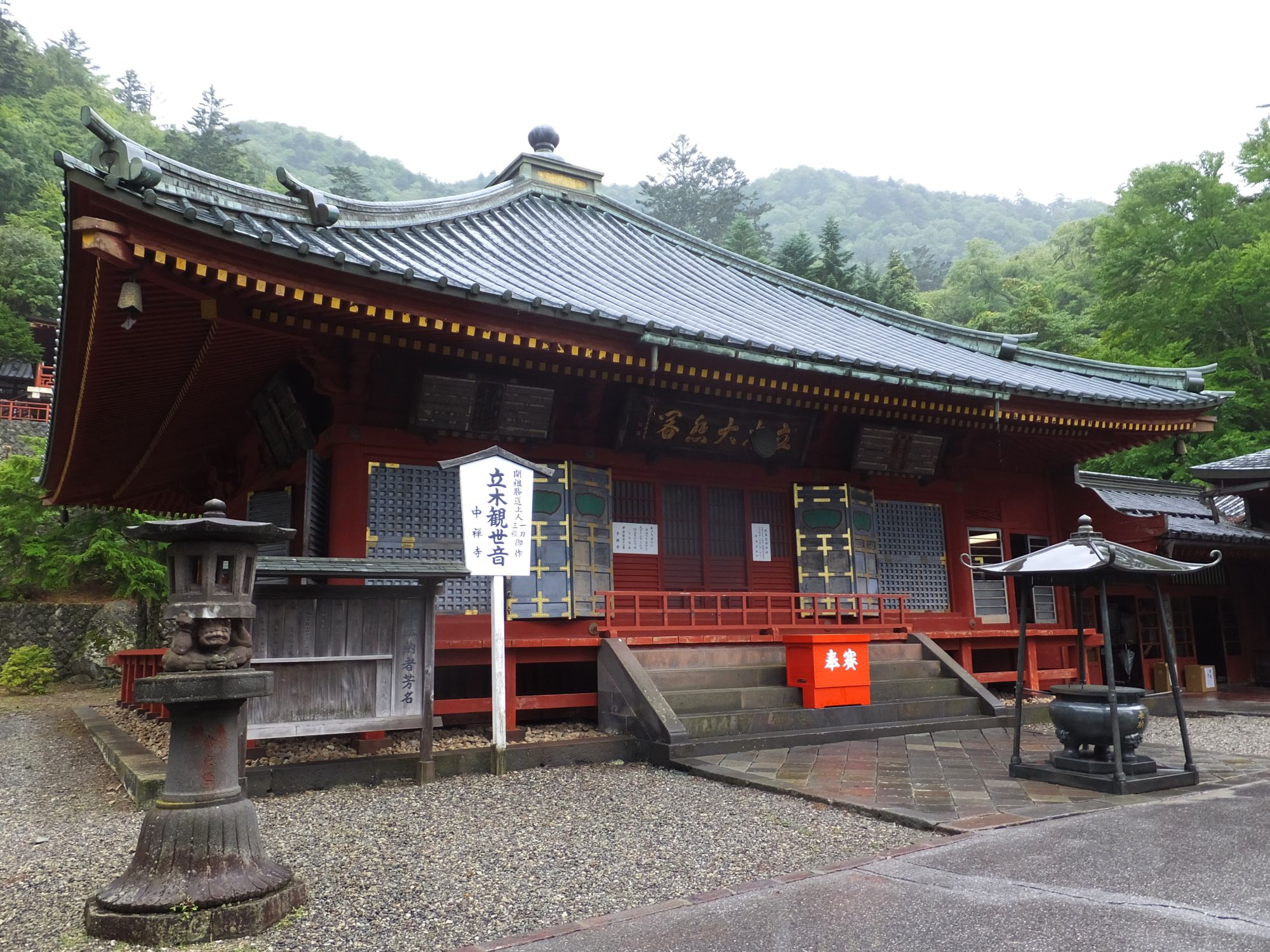 Kannon-dō hall of Chūzen-ji temple in Nikkō, Tochigi